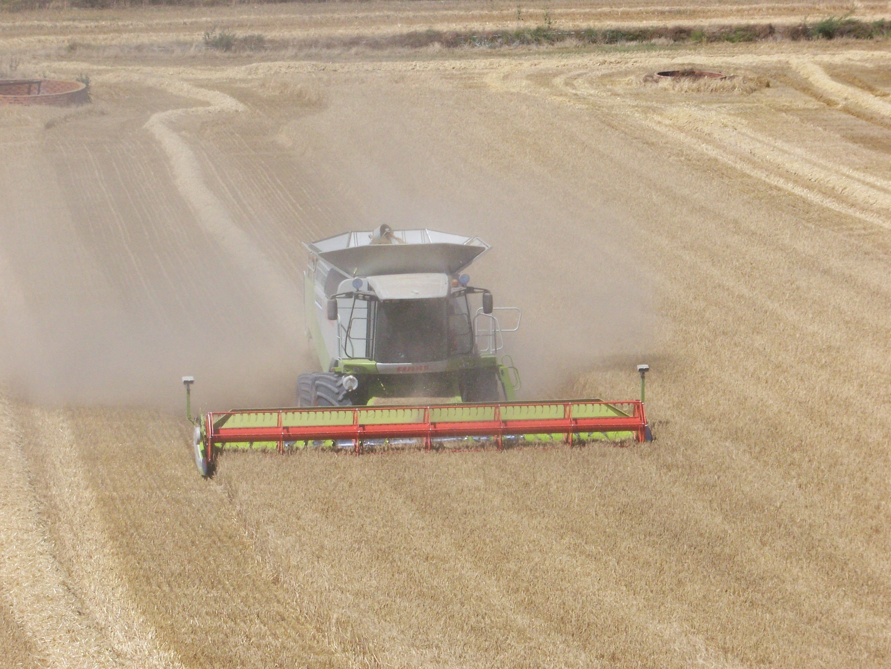 Claas combine harvester with laser pilot attached to both sides of the cutterbar